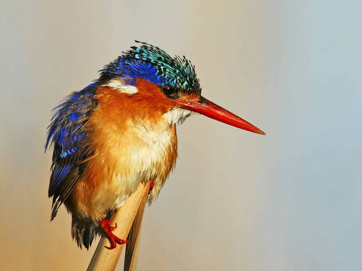 Malachite Kingfisher taken in Gauteng, South Africa